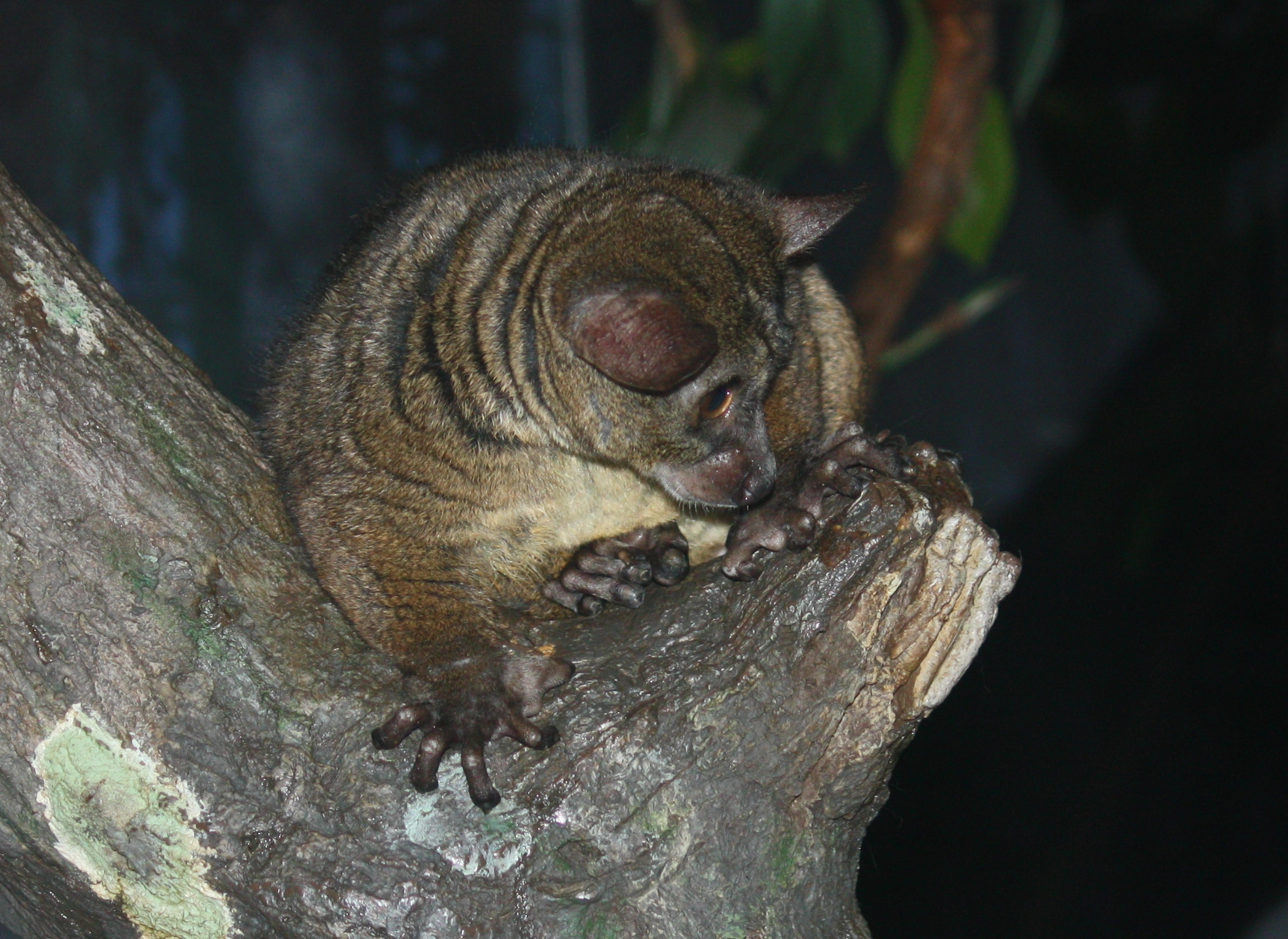 Garnett's Galago Otolemur garnettii at Cincinnati Zoo